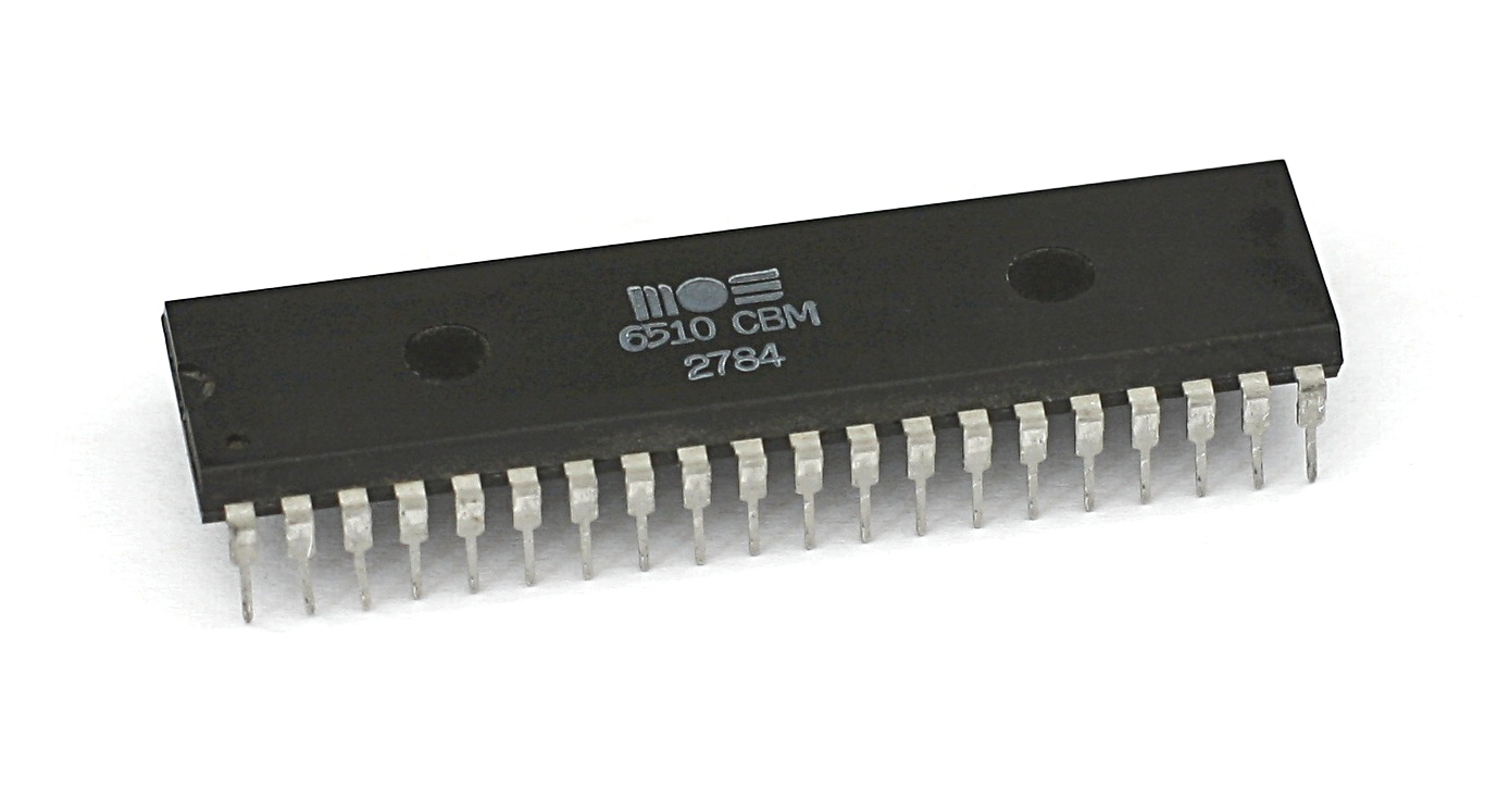 CPU MOS 6510.